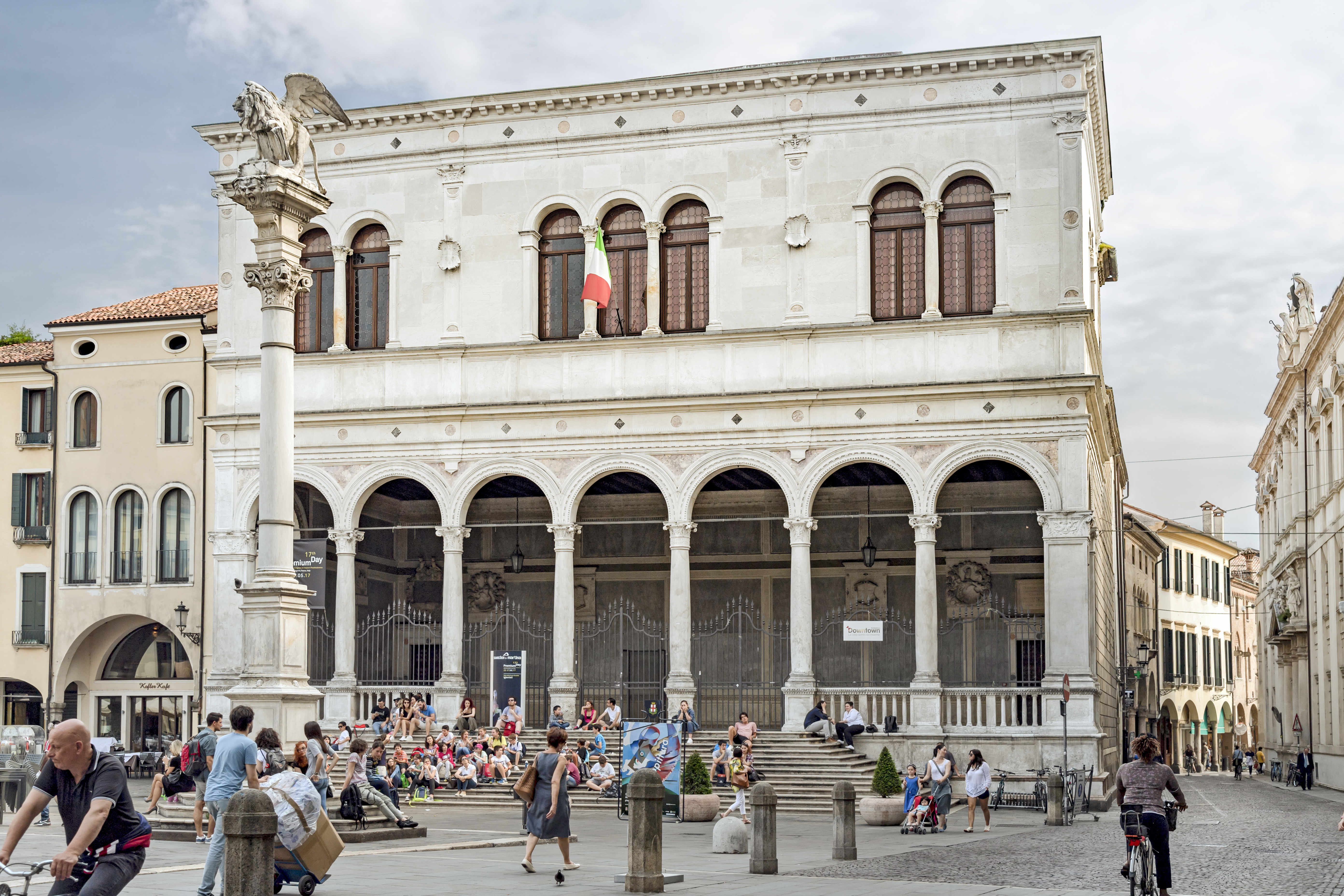 Piazza dei Signori in Padua - Loggia della Gran Guardia begun in 1493 and completed in 1526.